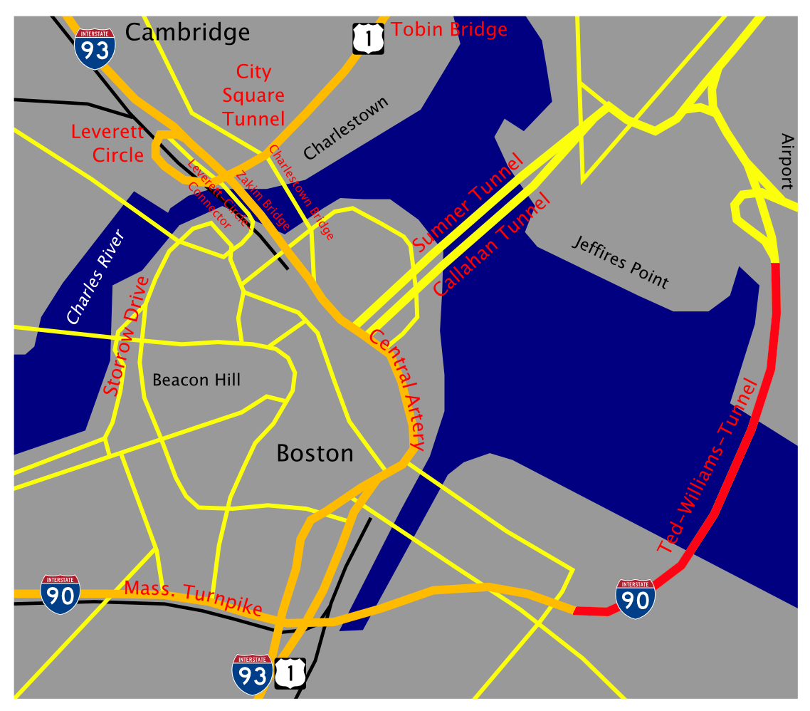 Map of Boston with "Big Dig" locations. If you want to make changes to this file, edit Image:Boston-big-dig.svg instead.